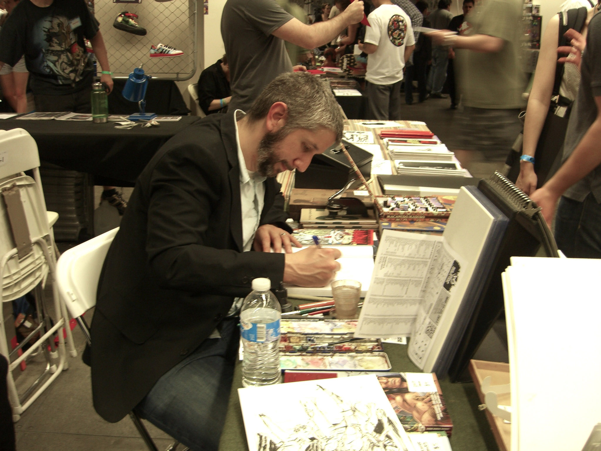 Comics creator Matt Kindt at the Big Apple Convention in Manhattan, May 21, 2011. Photographed by Luigi Novi. This photo is not in the public domain. It may, however, be used, modified and published for any purpose, free of charge, only if the photographer is properly credited, either by linking the photograph to this page, or with an easily visible credit to the photographer placed near the photo in each instance in which it is used. (See licensing information below.) Publication of this photo without this proper attribution constitutes copyright infringement. If you have any questions, you can contact me on my Wikipedia Talk Page.